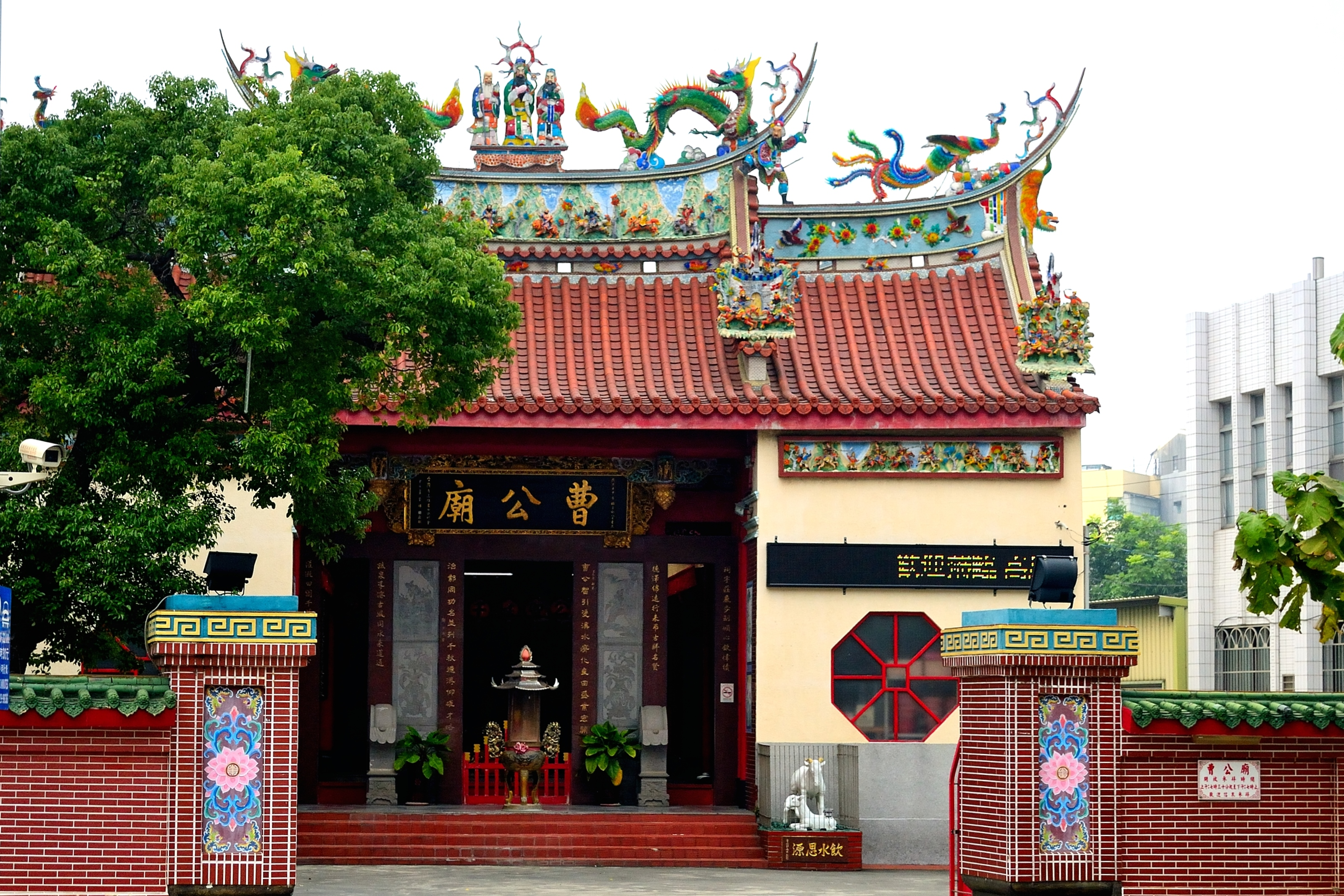 The temple of Cao-Jin who was Fengshan Magistrate on Qing Dynasty